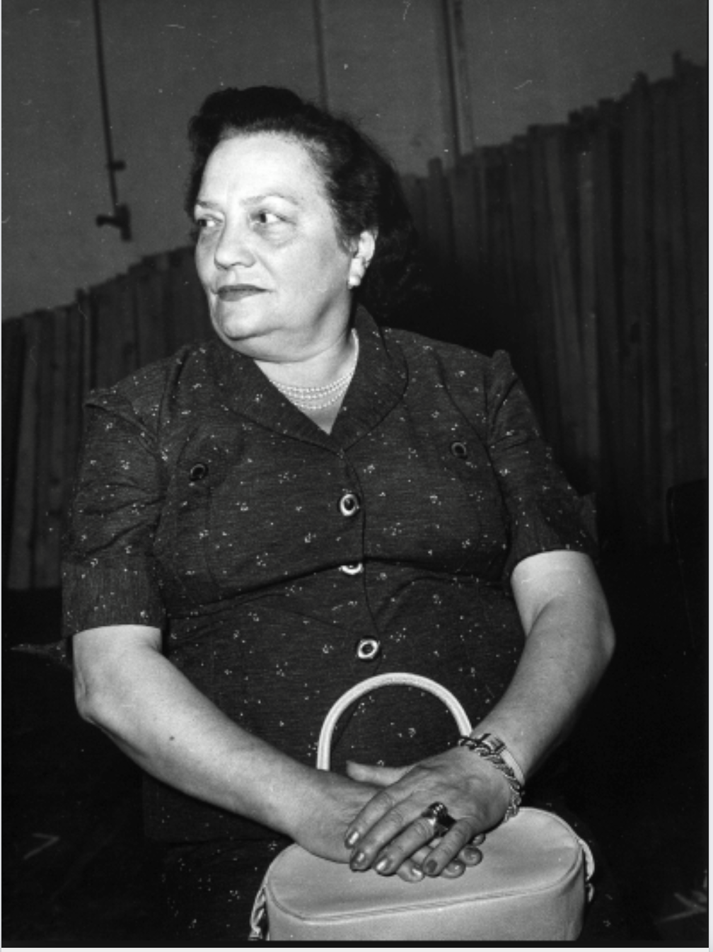 Italian actress Nina De Padova, 1970